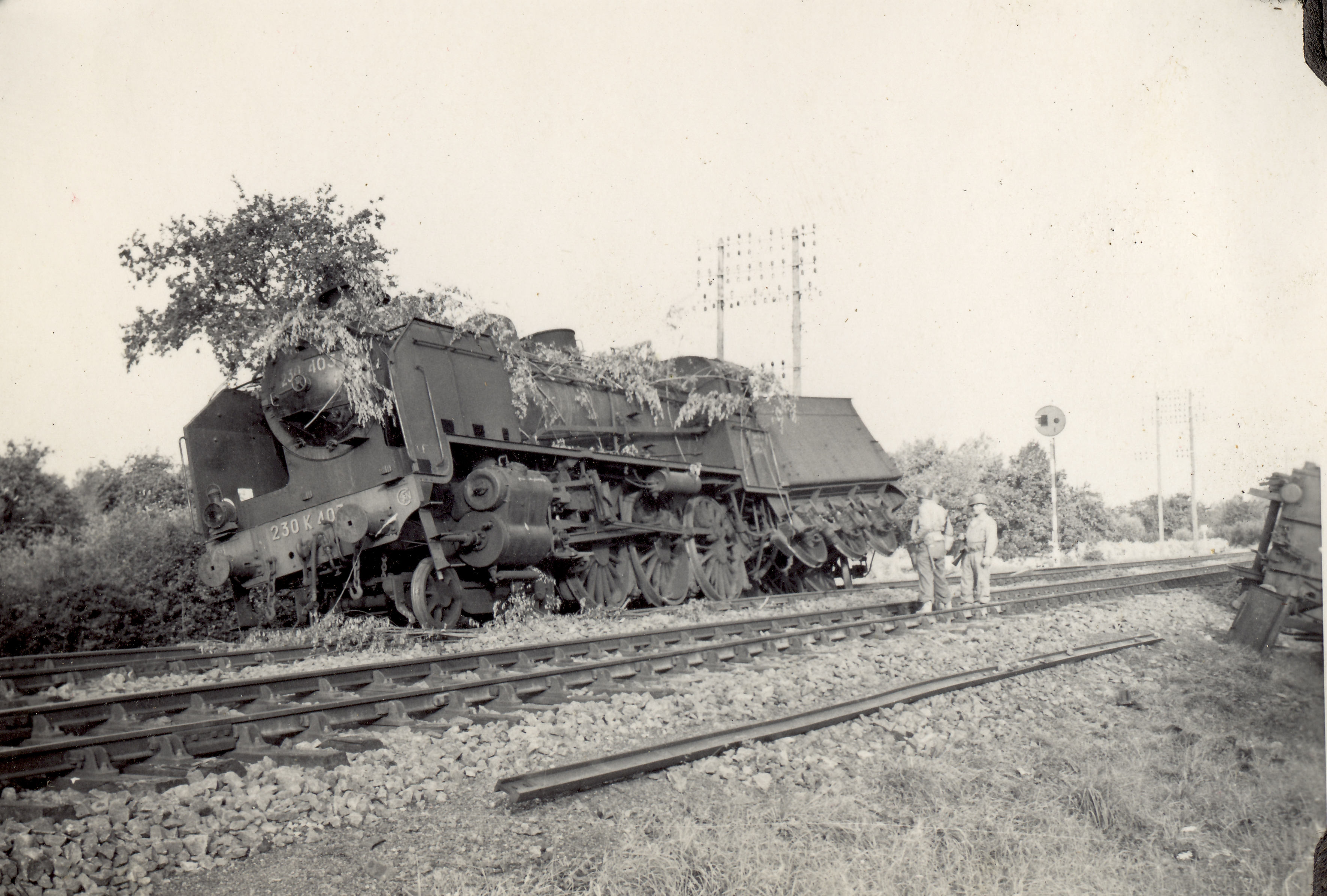 360th Engineer Aviation Battalion Company D in Europe from Camp Clayborne Louisiana August 1942 to September 1944. England, Wales, Normandy and Brest France. Train wreck near St. Malo France August 1944.